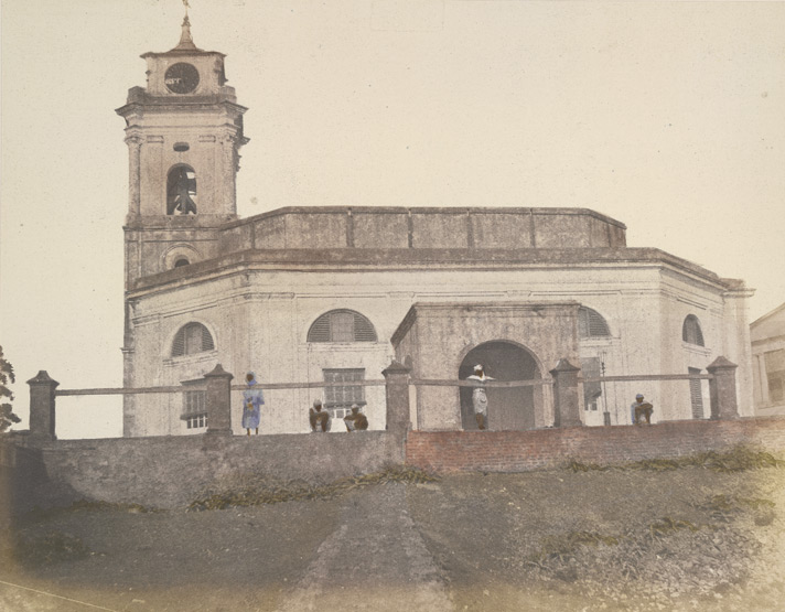 The Old Dutch Church, Chinsura; a hand-colored photo by Frederick Fiebig, 1858 (BL)